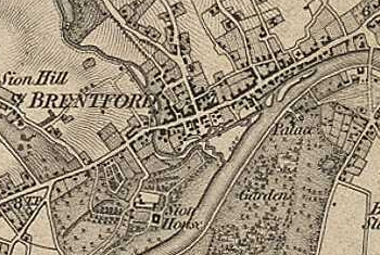 Brentford to the west of London where the River Brent meets the River Thames.